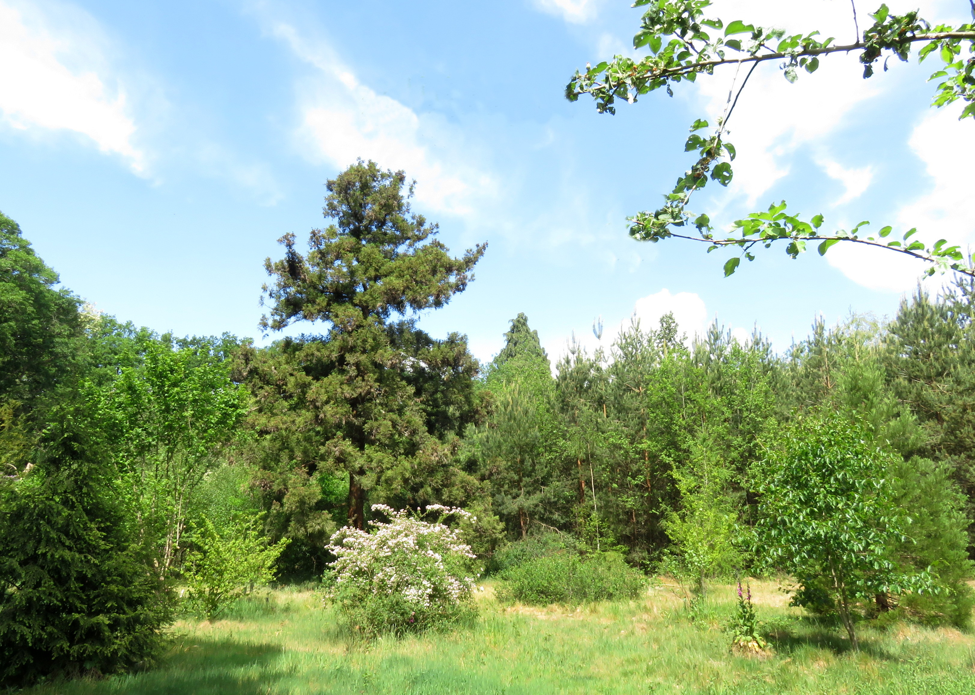 Overview in Arboretum Oostereng, Wageningen (NL) with a Japanese Cedar, Cryptomeria japonica with in front a flowering beauty bush, Linnaea amabilis